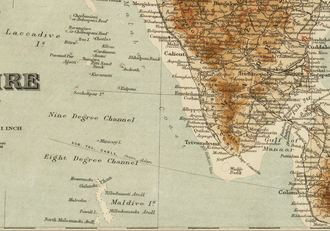 Detail of map: The Indian Empire and Ceylon Publisher: Edward Stanford Ltd. Date: 1920 Scale: 1:7,500,000